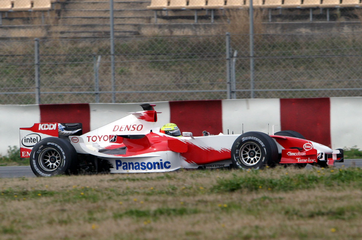 Ralf Schumacher in action for Toyota (2006)